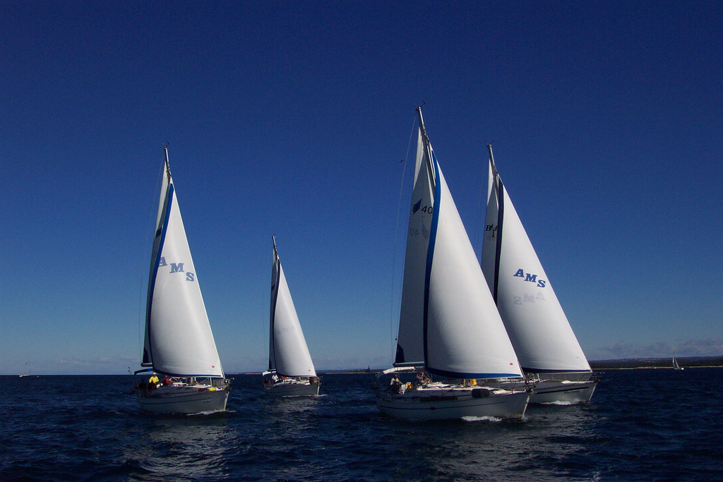 Bavaria Cup 40, Croatia